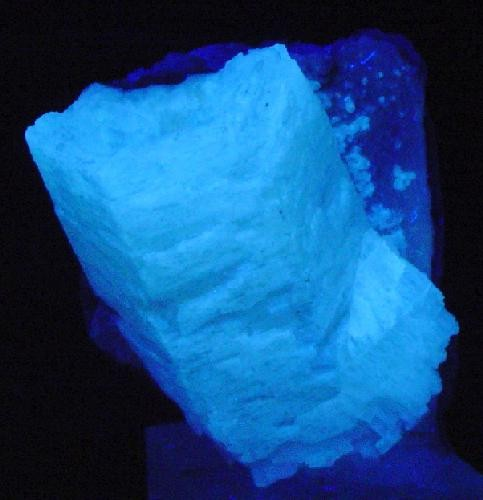 Witherite, Fluorite Locality: Mahoning No. 1 Mine (Minerva No. 1 Mine), Ozark-Mahoning Group, Cave-in-Rock Sub-District, Illinois - Kentucky Fluorspar District, Hardin County, Illinois, USA (Locality at ) Size: 4.8 x 4.4 x 3.2 cm. A large, sharp, lustrous, pseudohexagonal witherite crystal attached to a thin vein of yellow fluorite from the famed Minerva #1 of Southern Illinois. This outstanding Cave-in-Rock District witherite has a rare hoppered termination. Super white fluorescence. Ex. George Feist and Ed David Collections.